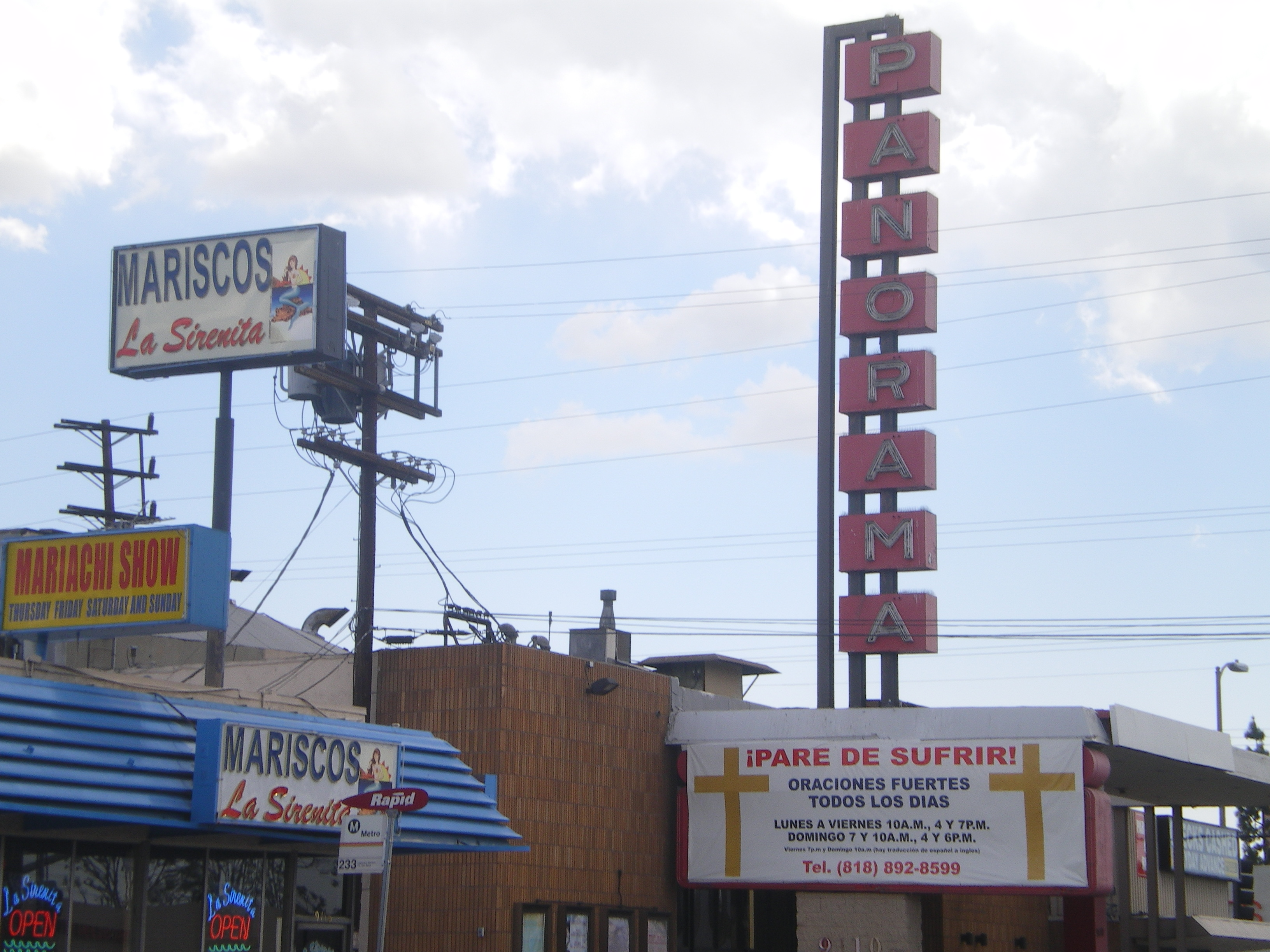 Exterior of Panorama Theater converted into a church, Panorama City